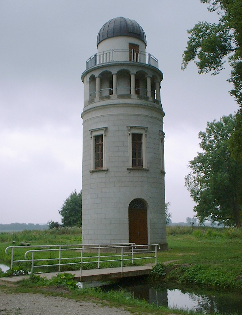 Tower of the former observatory in Remplin in Mecklenburg-Western Pomerania, Germany